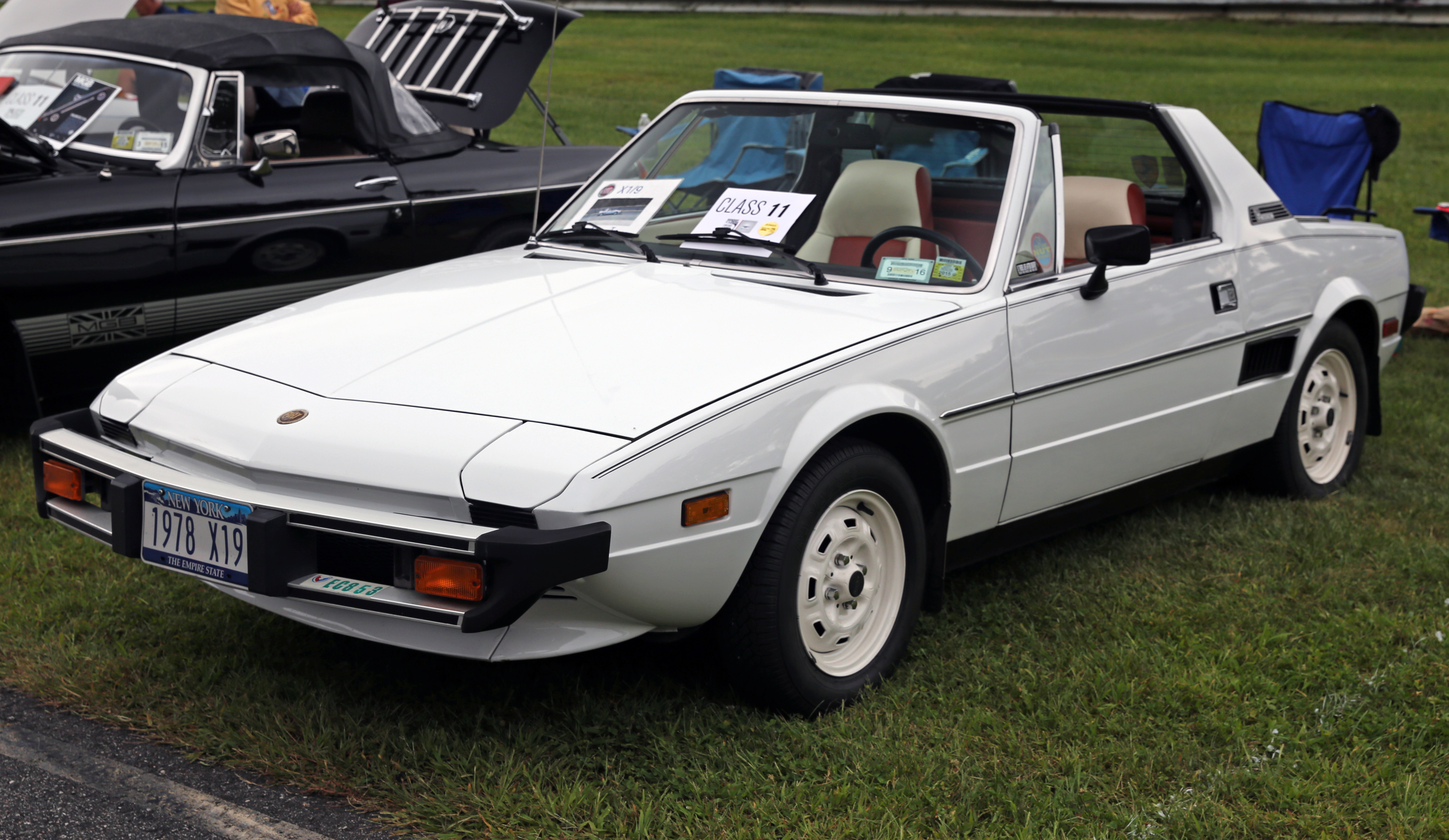 1978 US market Fiat X1/9, glorious in an all-white paint job. This is a rather late Series 1 car, later '78s got even bigger bumpers (imagine!).